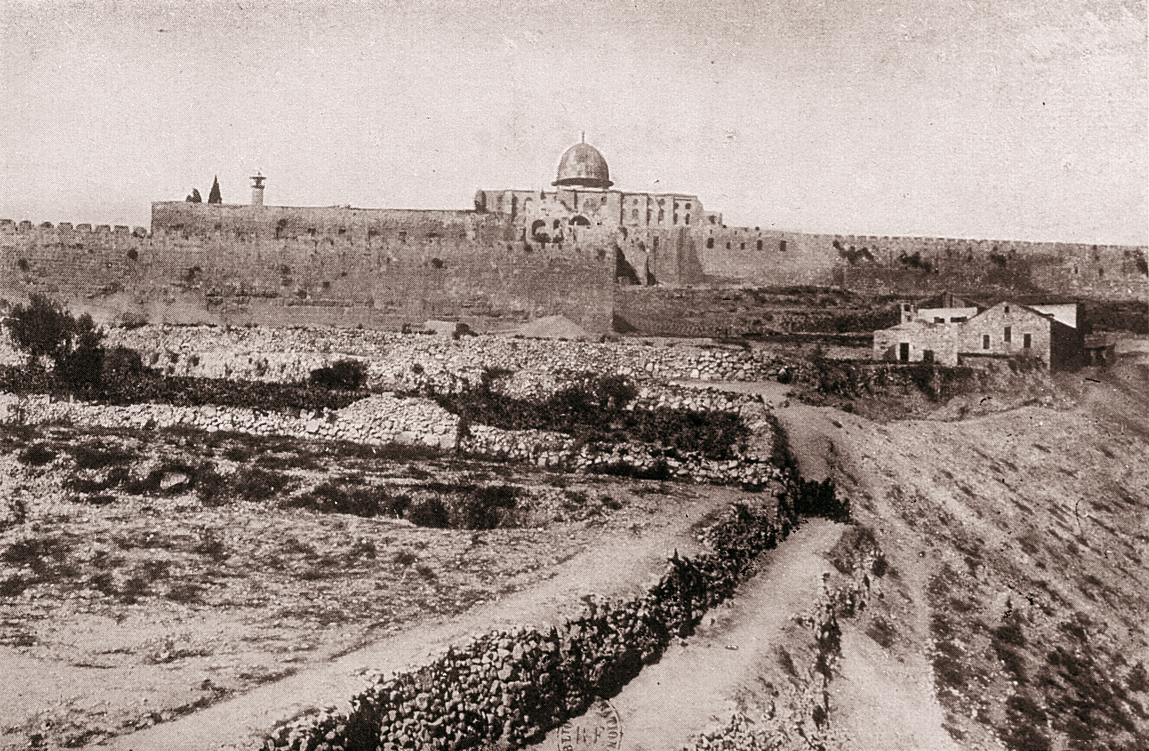 The Mosque of Omar seen from Parker Mission House.